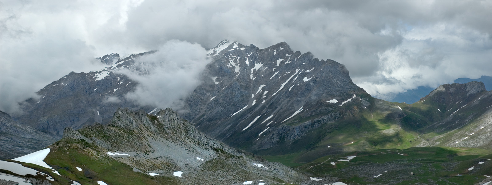 Mountain pass of Aliva in the central massif of the Picos de Europa, in the municipality of Camaleño (Cantabria, Spain).